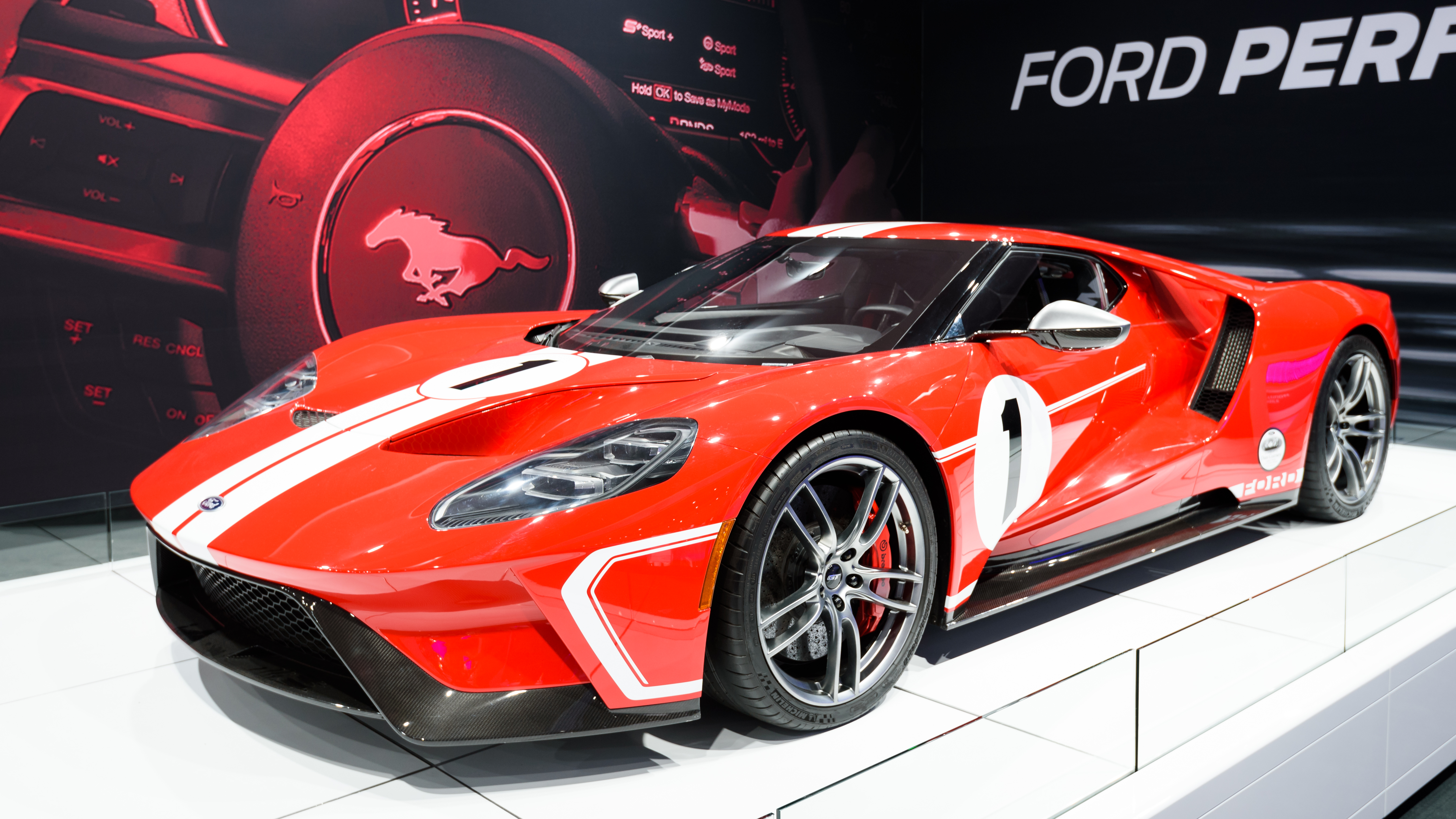 1967 Heritage Edition. This limited-edition 2018 Ford GT celebrates the GT40 Mark IV race car #1 that won the 24 Hours of Le Mans in 1967.